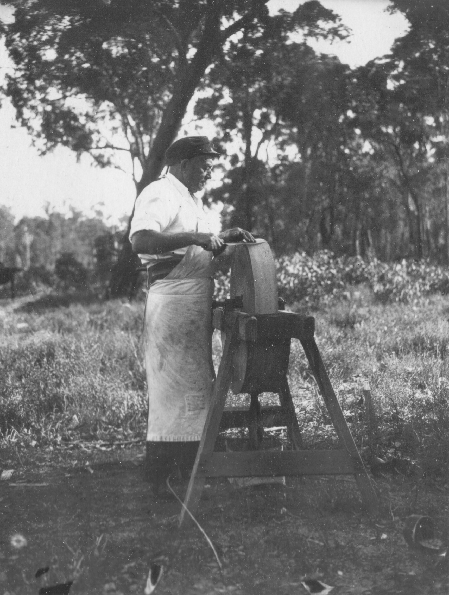 Tom World (railway camp cook) sharpening his knife, Beechina, Western Australia. f8, 1/60.